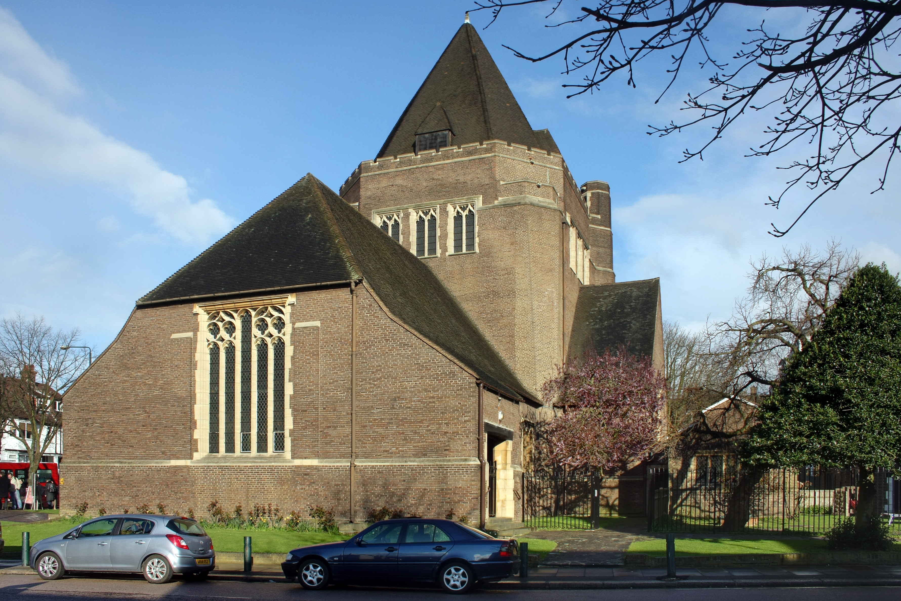 St. Alban's, Golders Green Parish Church in Barnet, London